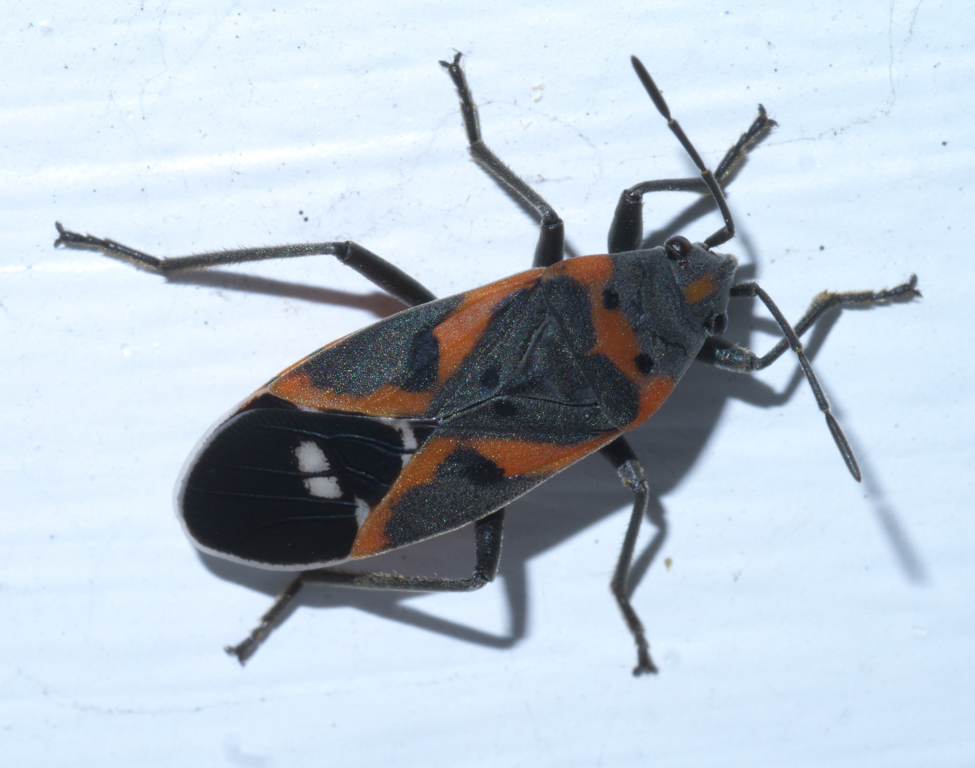 Lygaeus kalmii, Small Milkweed Bug, ID Confidence: 90